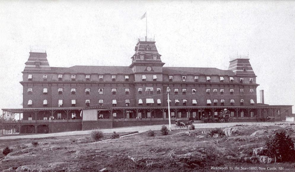 Photograph of The Hotel Wentworth (Wentworth by the Sea), New Castle, New Hampshire